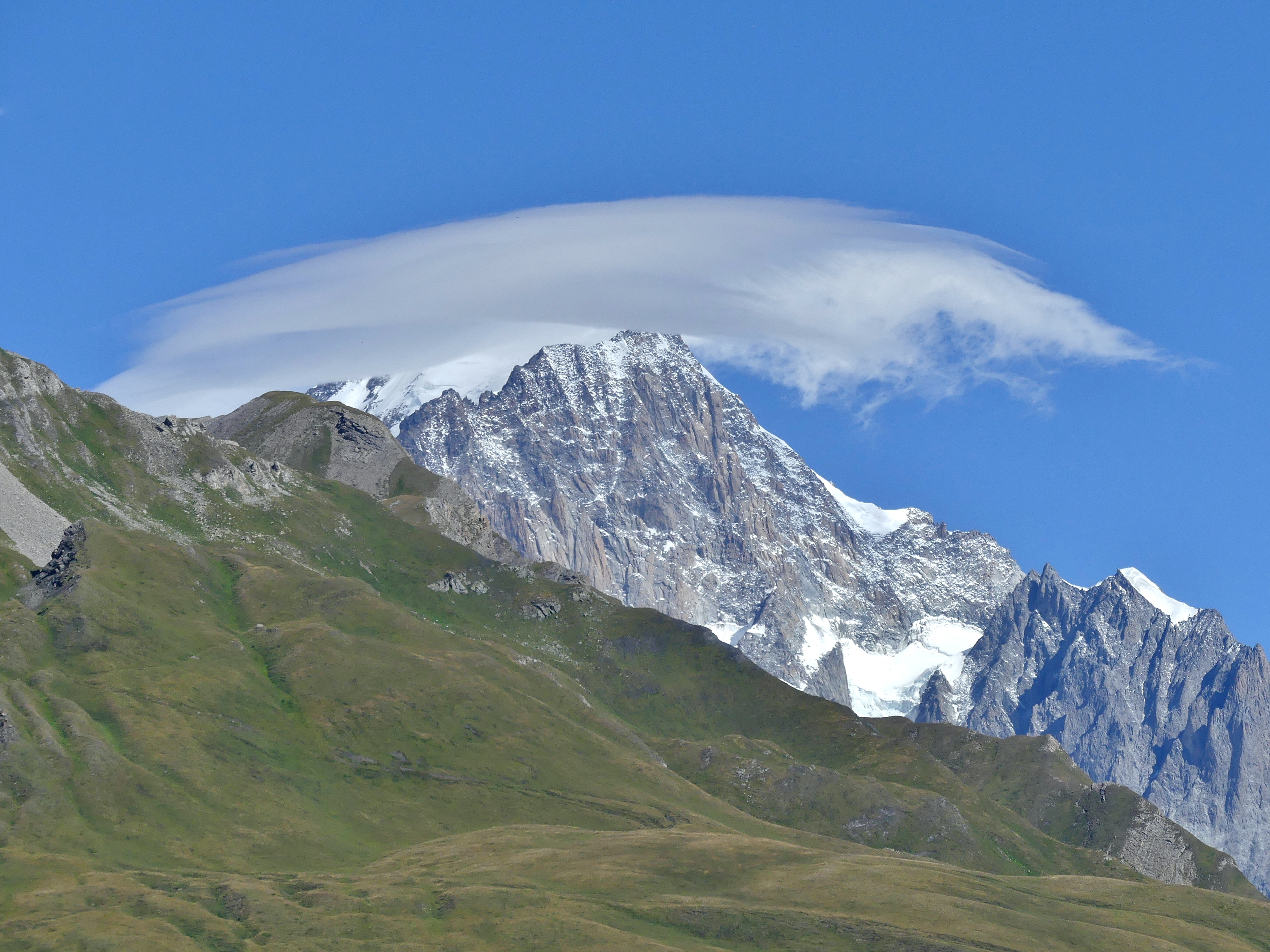 Sight, from the Petit-Saint-Bernard pass in a summer morning, of a usual wave cloud on the Mont Blanc (and locally called 'Âne du Mont Blanc'), in the Alps.